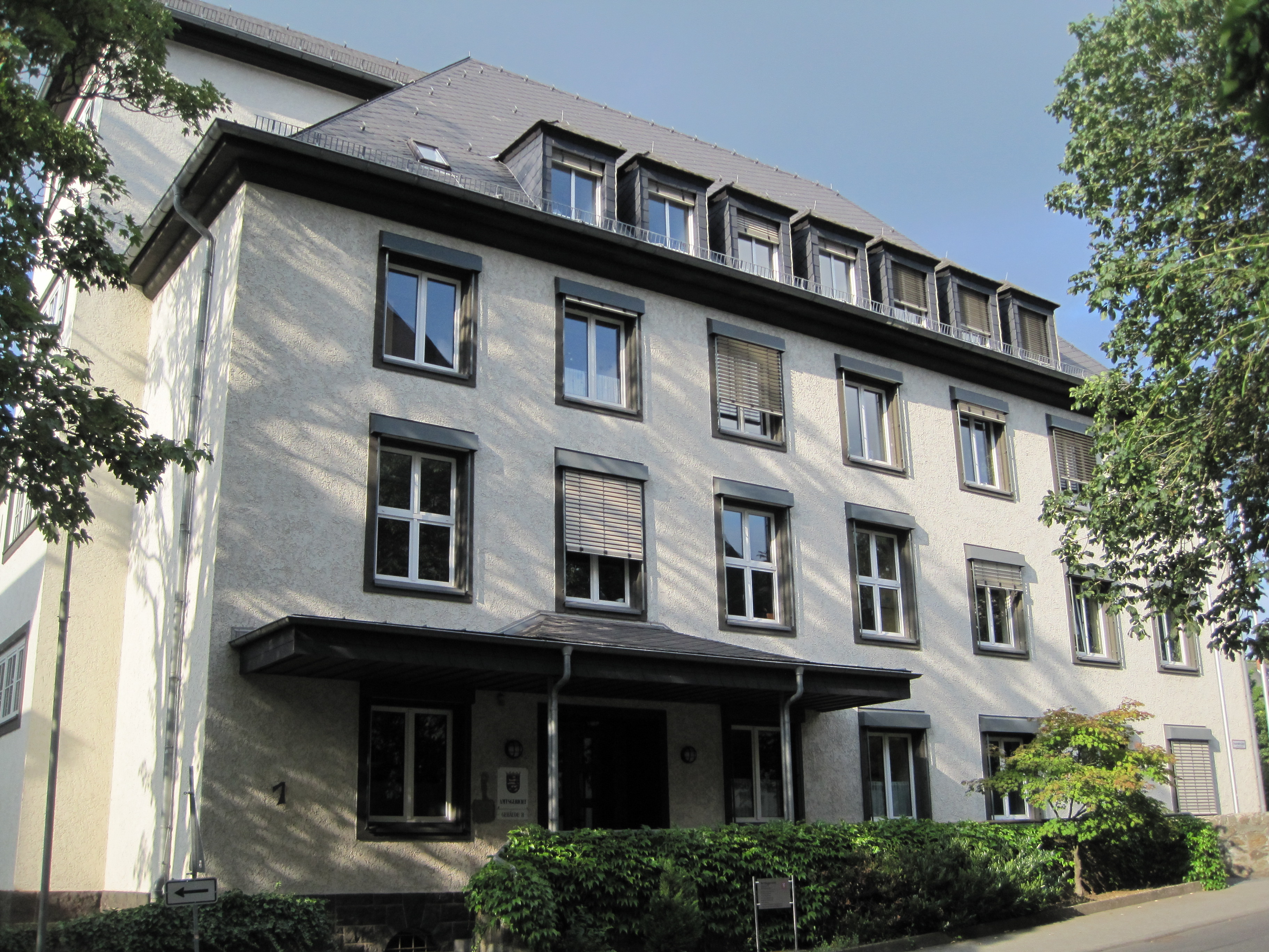 Courthouse Amtsgericht Wetzlar, Wetzlar, Germany check usage